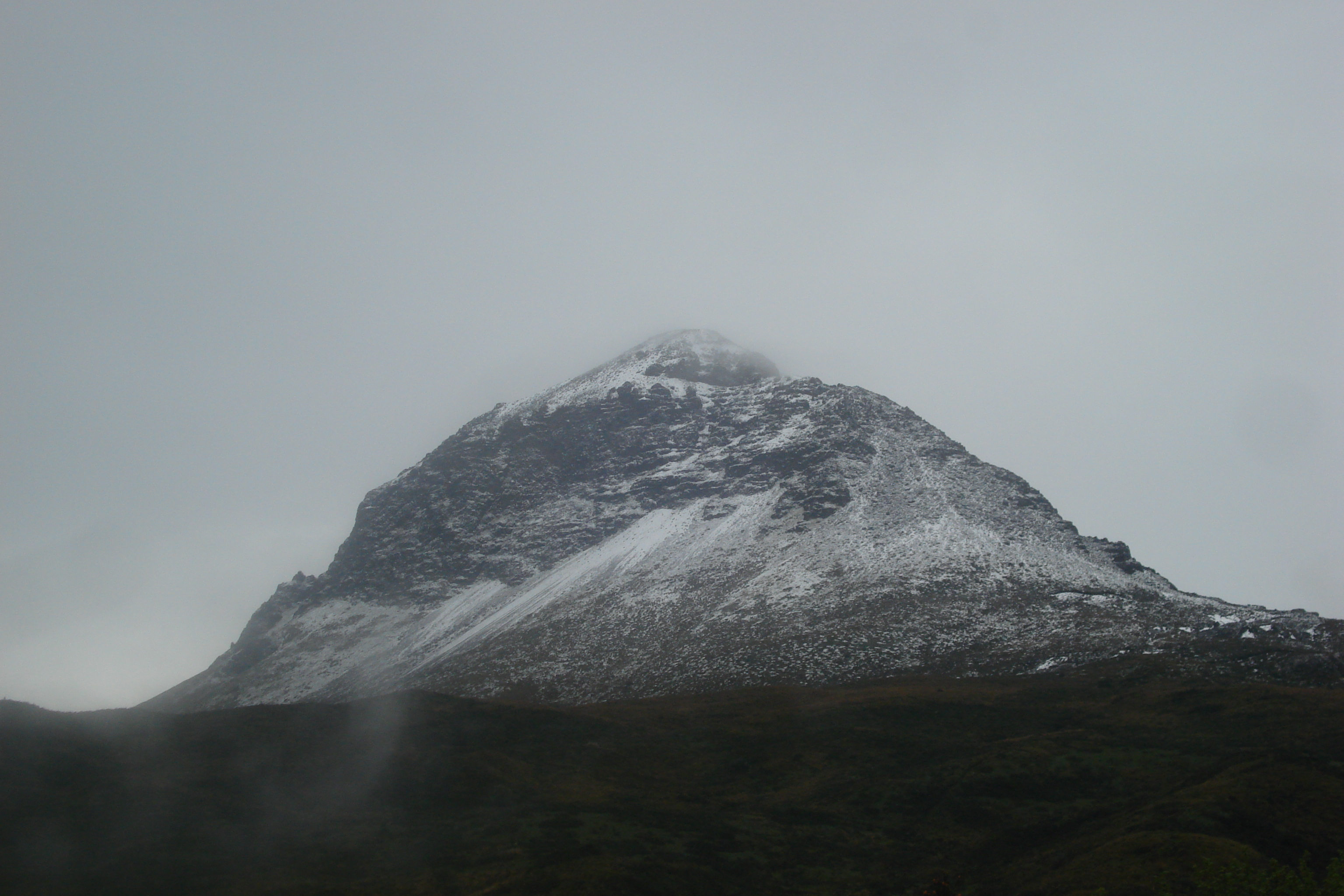 Picture of Corazón Volcano taken from its base on 21 Nov 2010 Imagen del Volcán Corazón tomada desde su Base el 21 Nov 2010